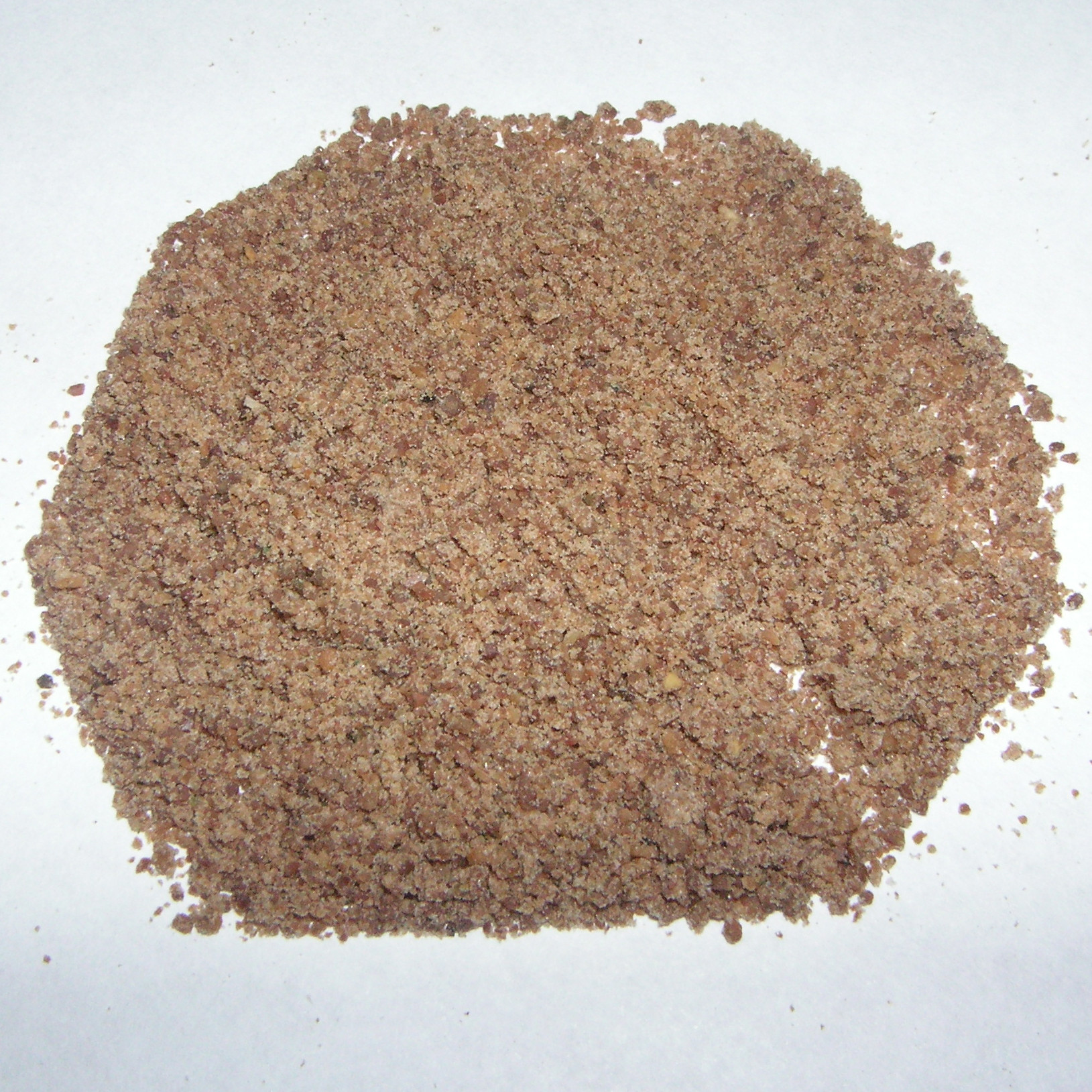 Yopo snuff with 1/3 baking soda. The seeds were toasted and then husks were removed. The baking soda was mixed in with the seeds and then the mixture was wet, mixed, then let to dry.